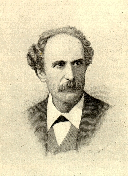 Émile Louis Victor de Laveleye (1822-1892), Economist from Belgium and Writer on topics ranging from politics to international law; Professor of National economics at the University of Liège